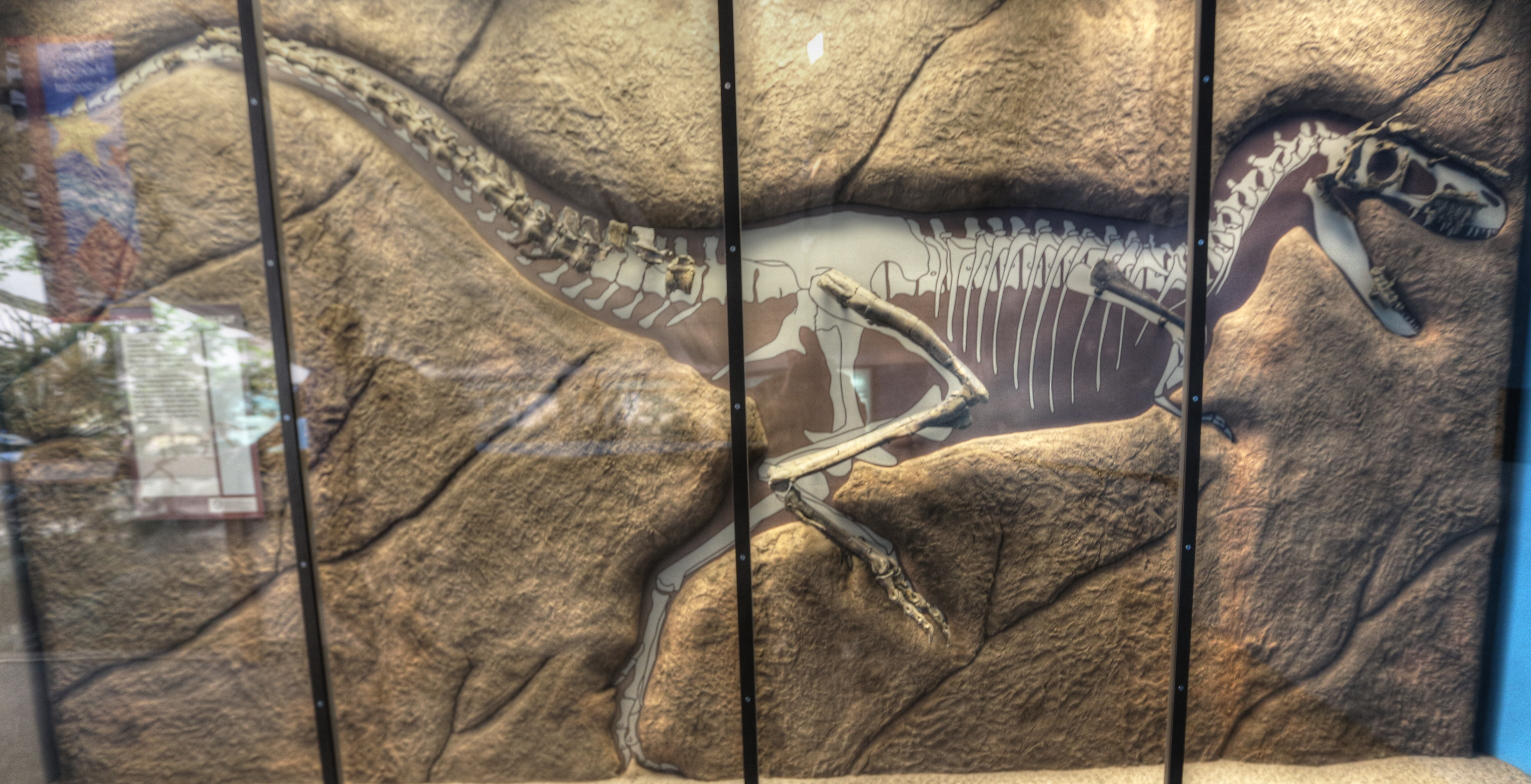 Family visiting museum.